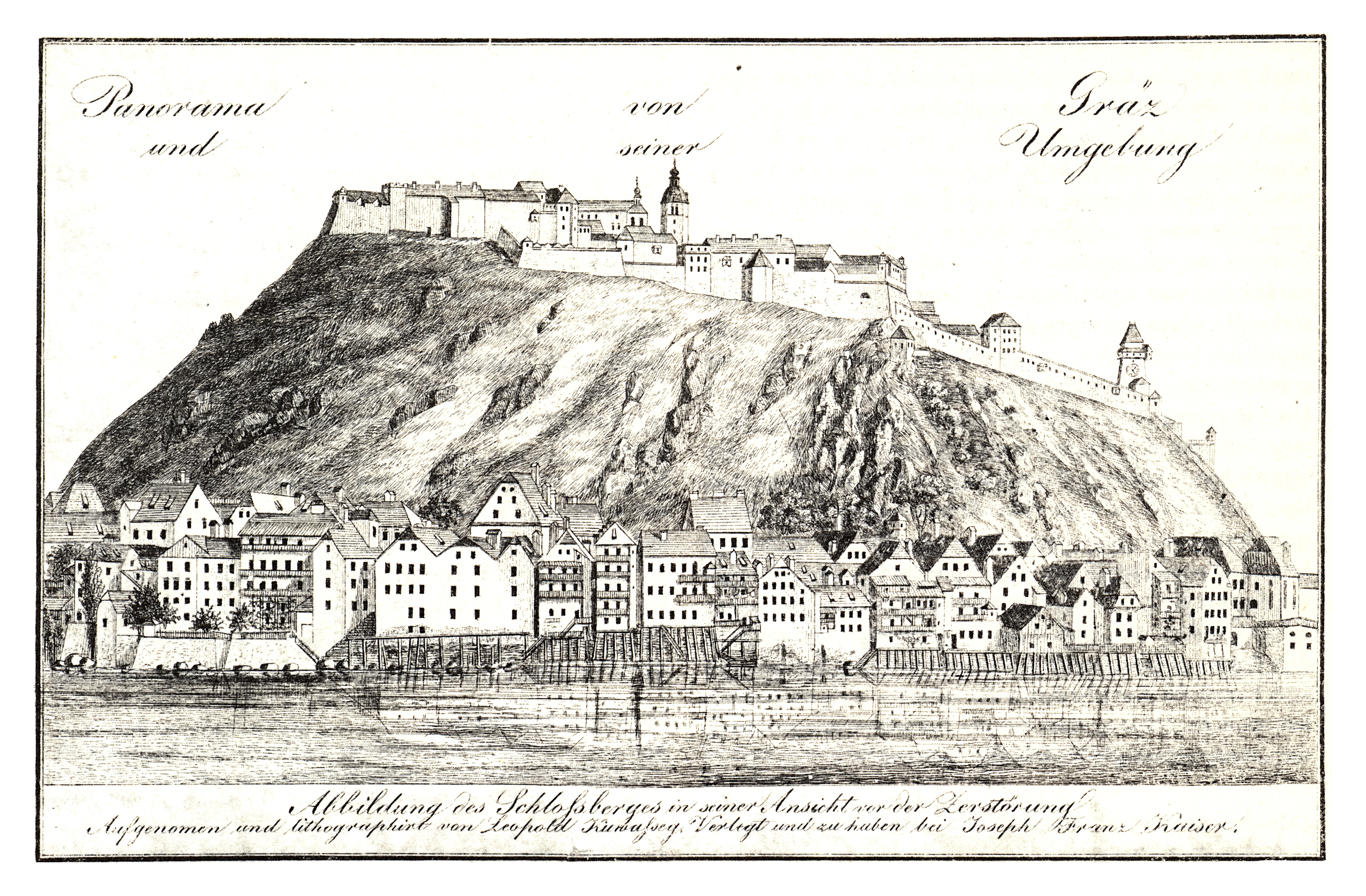 J. F. Kaiser - lithographirte Ansichten der Steyermärkischen Städte, Märkte und Schlösser Graz, 1825 Joseph Franz Kaiser (1786–1859) Alternative names J. F. KaiserDescriptionAustrian printer and editorDate of birth/death 11 March 1786 19 September 1859Location of birth/death Graz (Styria) GrazAuthority control : Q1499963 VIAF: 30629353 ISNI: 0000 0000 3083 0153 LCCN: n87141671 GND: 129880159 NLP: A24960305 WorldCat creator QS:P170,Q1499963 Scanprojekt Community Projektbudget 2012 This scan or this PDF-file was created within the GLAM-project Bookscanning, supported by Wikimedia Germany and Wikimedia Austria as a part of the community-project to capture books, documents and pictures which are not eligible to copyright or for which the copyright has expired. This document describes or depicts an object which is located in Austria today. Send requests for uncompressed scans to Hubertl. This work is in the public domain in its country of origin and other countries and areas where the copyright term is the author's life plus 100 years or less. You must also include a United States public domain tag to indicate why this work is in the public domain in the United States. This file has been identified as being free of known restrictions under copyright law, including all related and neighboring rights.